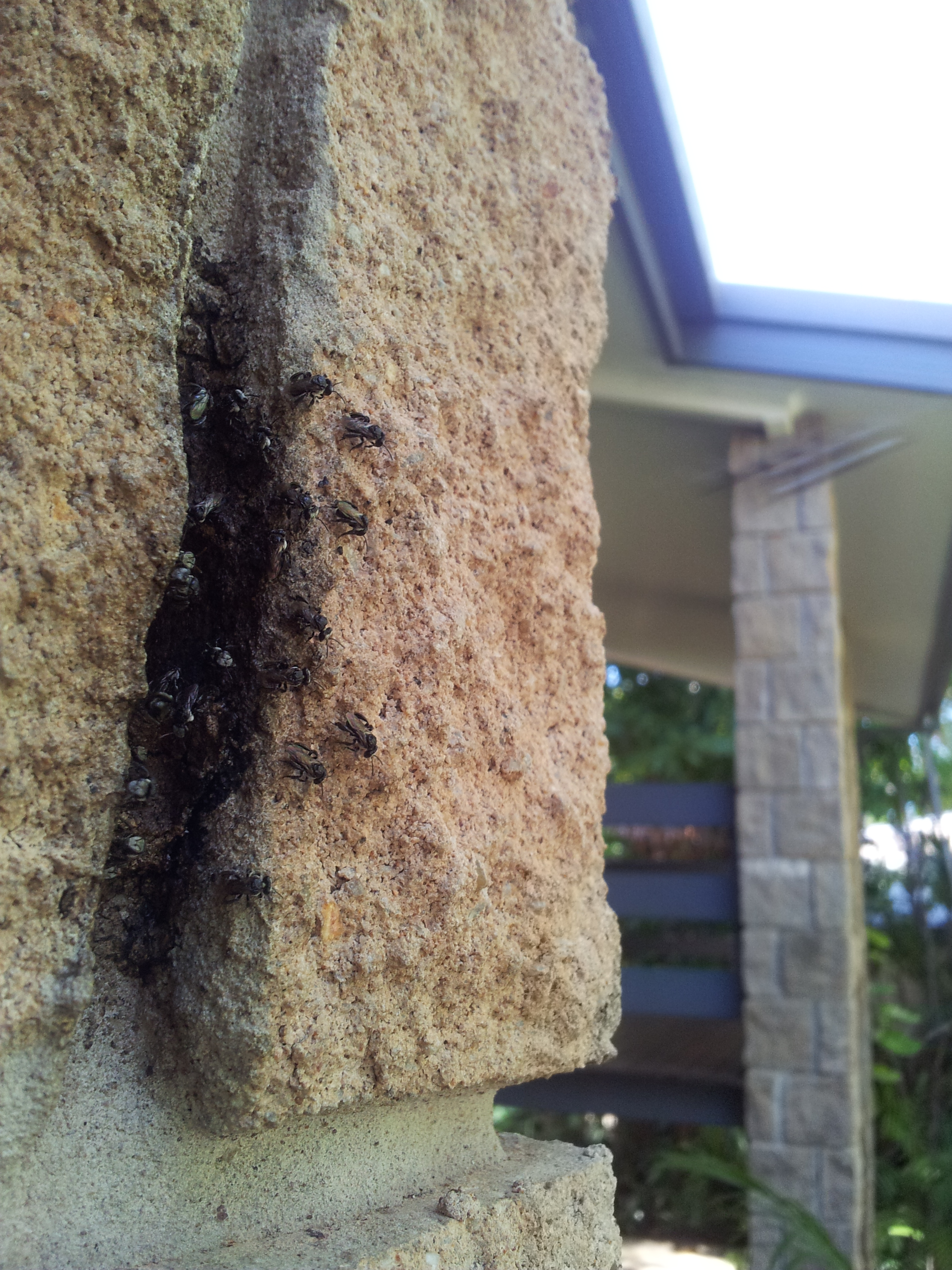 Australian native bees, or Stingless Bees (Trigona) establishing a hive in the brickwork of a house in Darwin